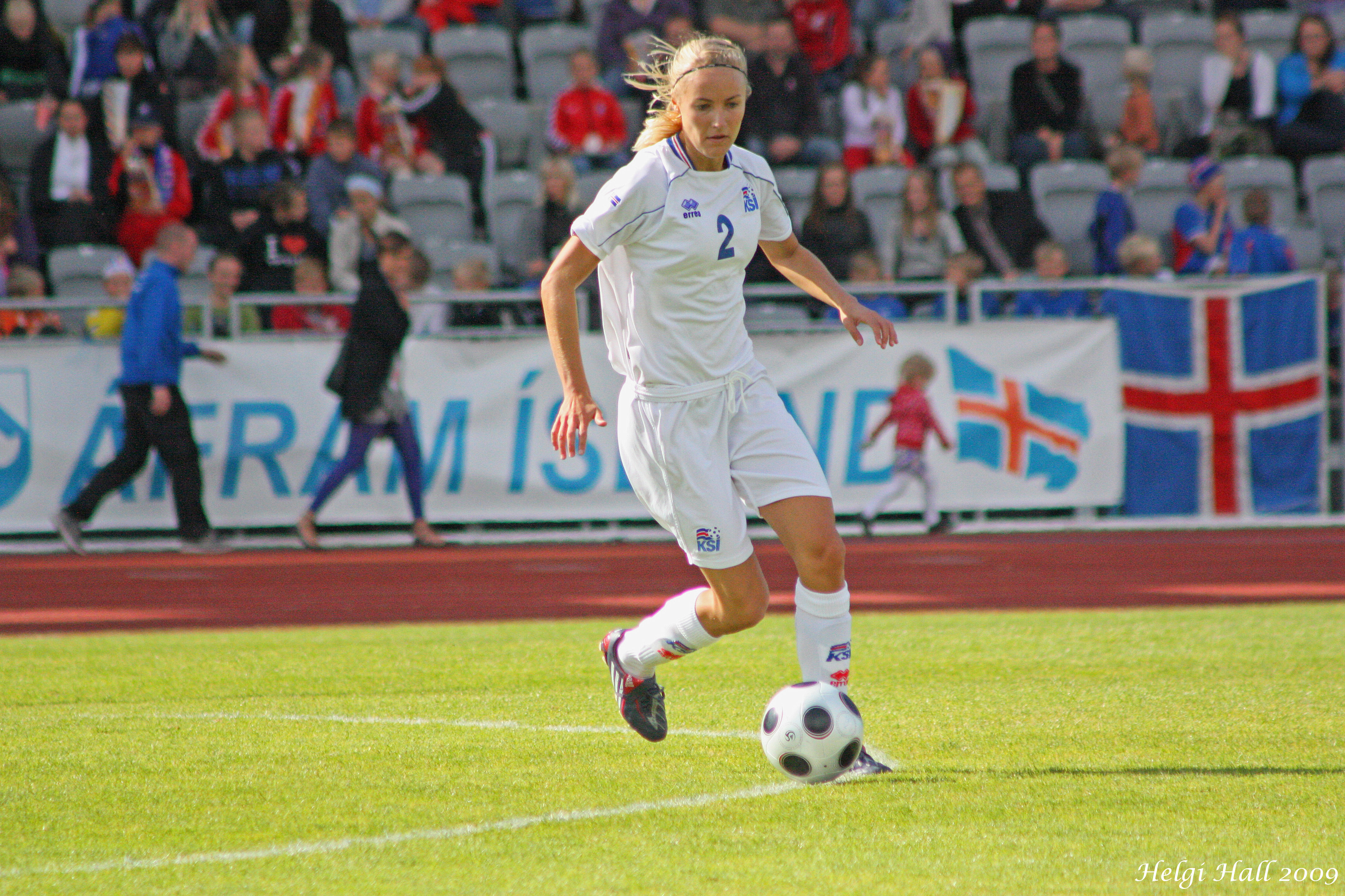 Guðrún Sóley Gunnarsdóttir during Iceland - Serbia/2011 FIFA Women's World Cup qualification UEFA Group 1